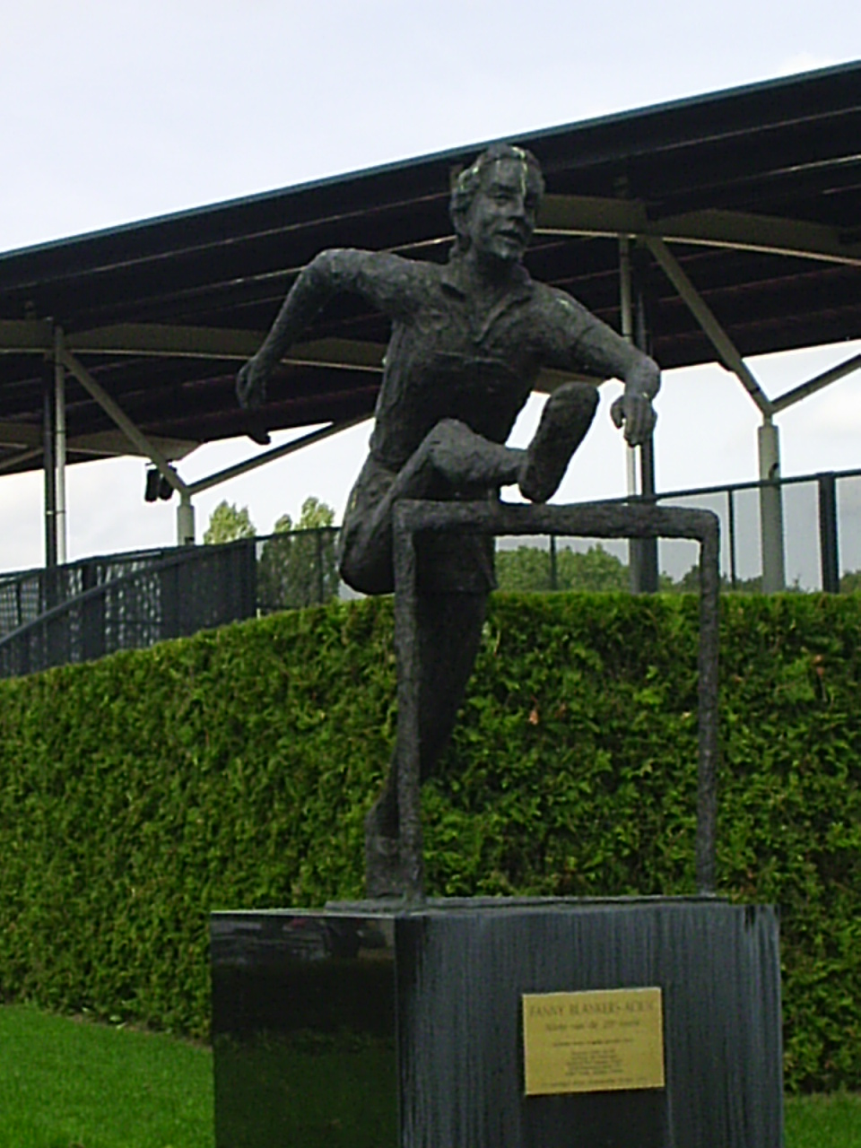 Statue of Fanny Blankers-Koen (Hengelo)